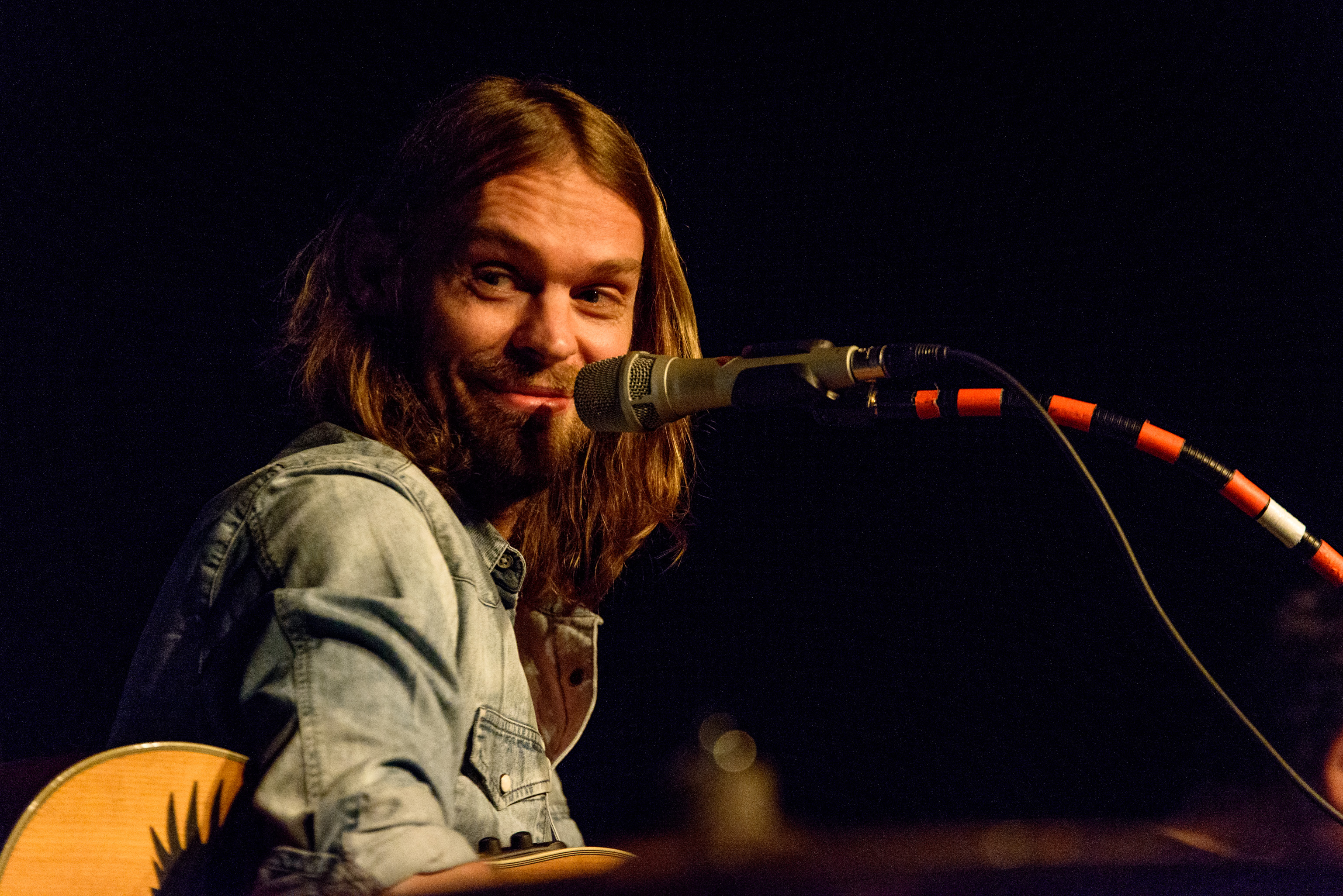 Ingo Pohlmann Live @ Munich 2016